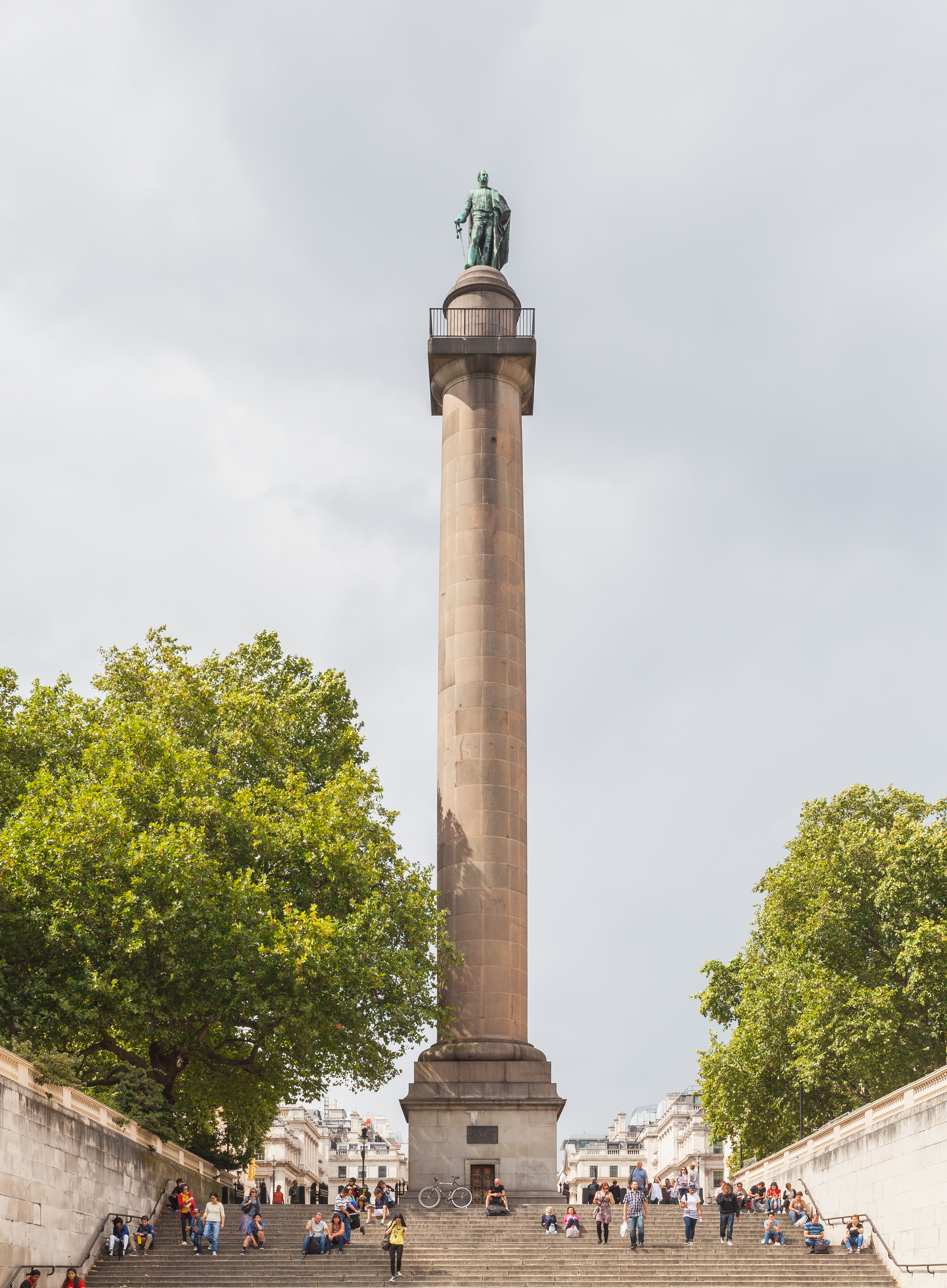 Steps and Column of the Duke of York, London, England